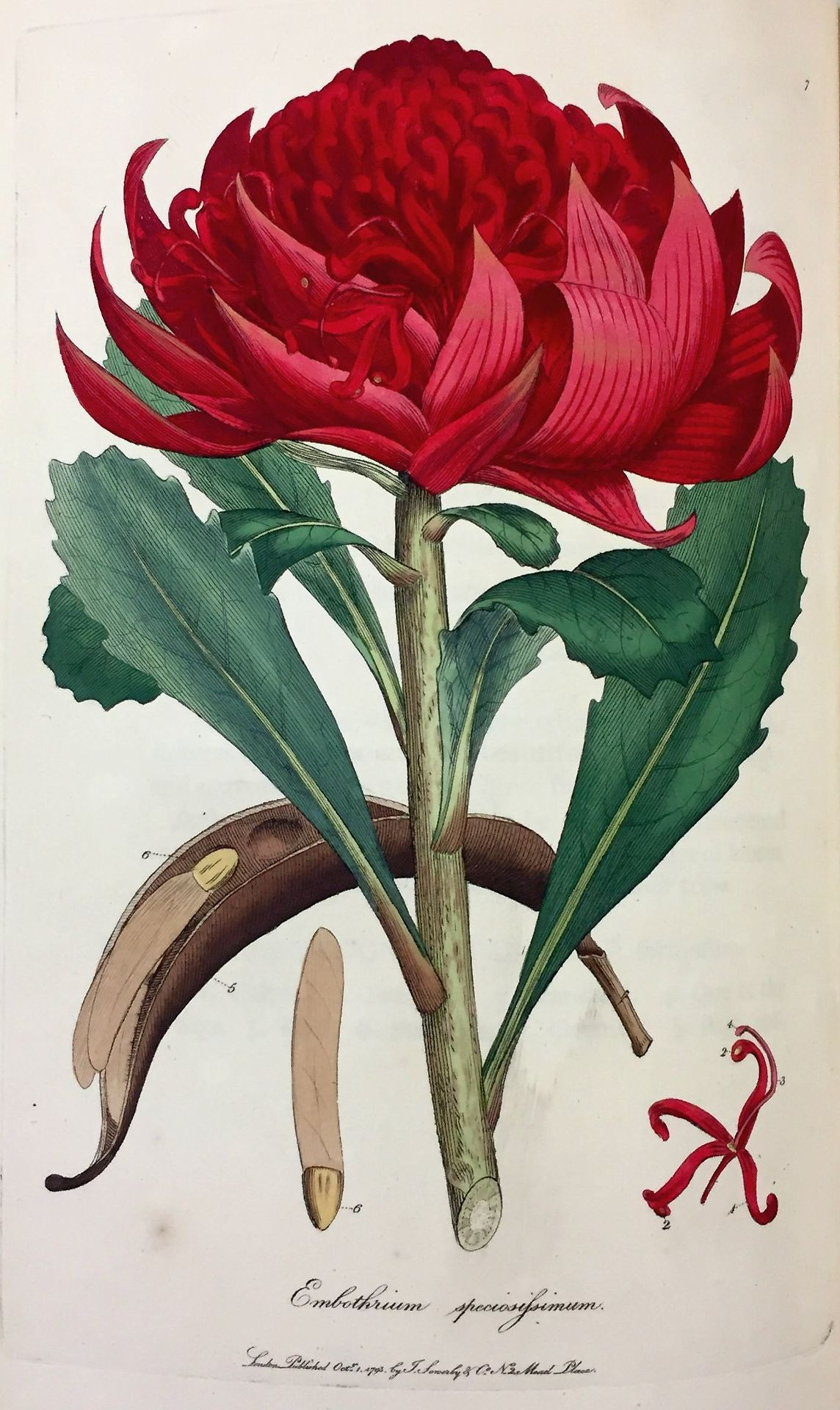 This is an image of a print of a hand coloured engraving by James Sowerby (1757-1822), based on drawing nominally by John White but probably by the convict artist Thomas Watling. It appeared as Tab. IV in James Edward Smith's 1793 A Specimen of the Botany of New Holland. The plant depicted was then known as Embothrium speciosissimum, but is now Telopea speciosissima (Waratah). The accompanying text explains the figure thus: 1. A flower fully expanded. 2.2. Antherae. 3. Germen. 4. Stigma 5. Follicle. 6.6. Seeds. All of their natural size